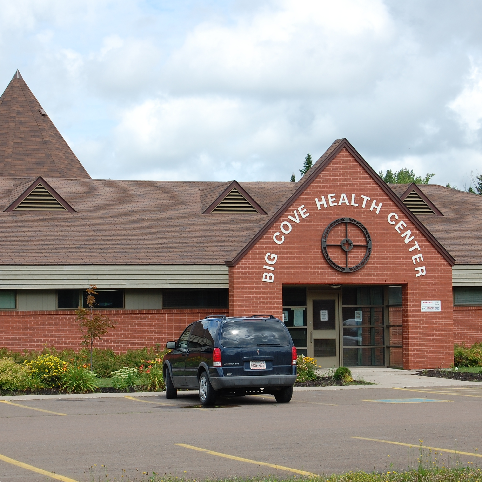 Elsipogtog (Big Cove) Health Centre, Elsipogtog First Nation, New Brunswick